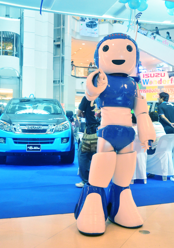 Mascot and D-Max in Thailand